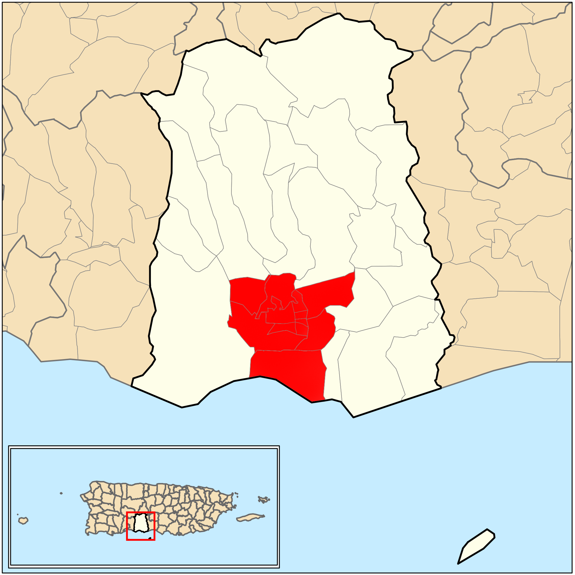 Locator map of barrios within the City of Ponce — in the Municipality of Ponce, Puerto Rico.